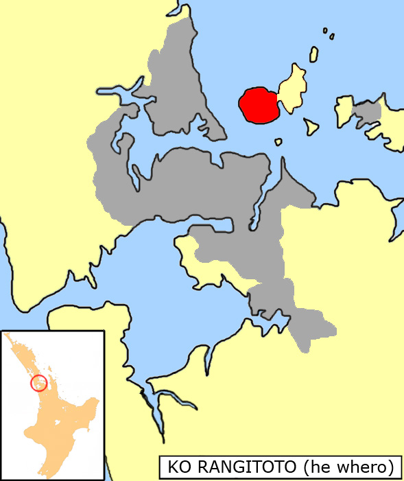 Location map of Rangitoto Island, New Zealand